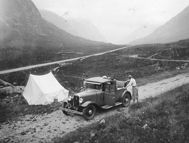 Photo taken by my now-deceased parents, scanned in by the contributor. Photo of near the top of the pass of Glencoe.